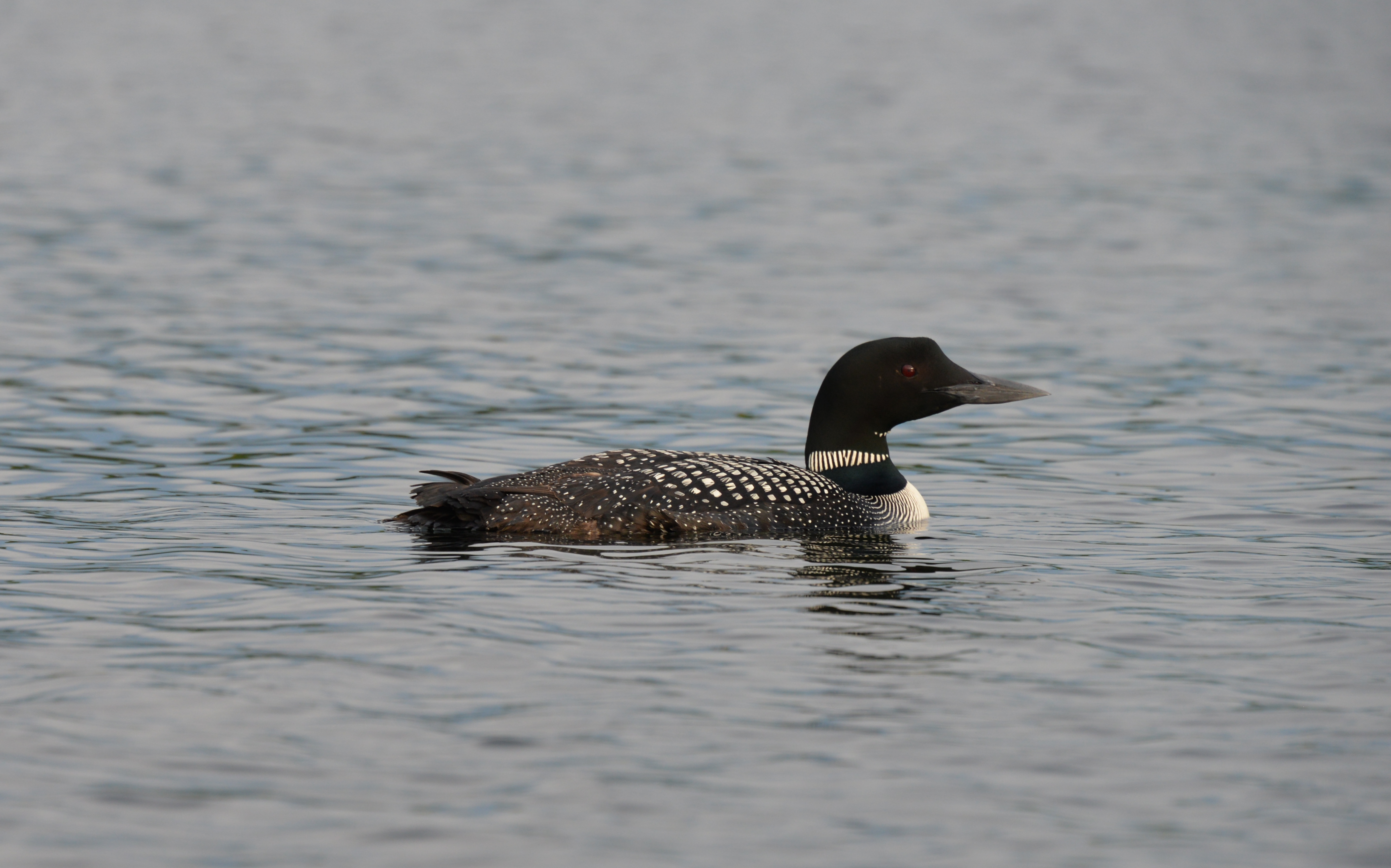 Great northern loon (Gavia immer) on White Lake near Peterborough, Ontario, Canada